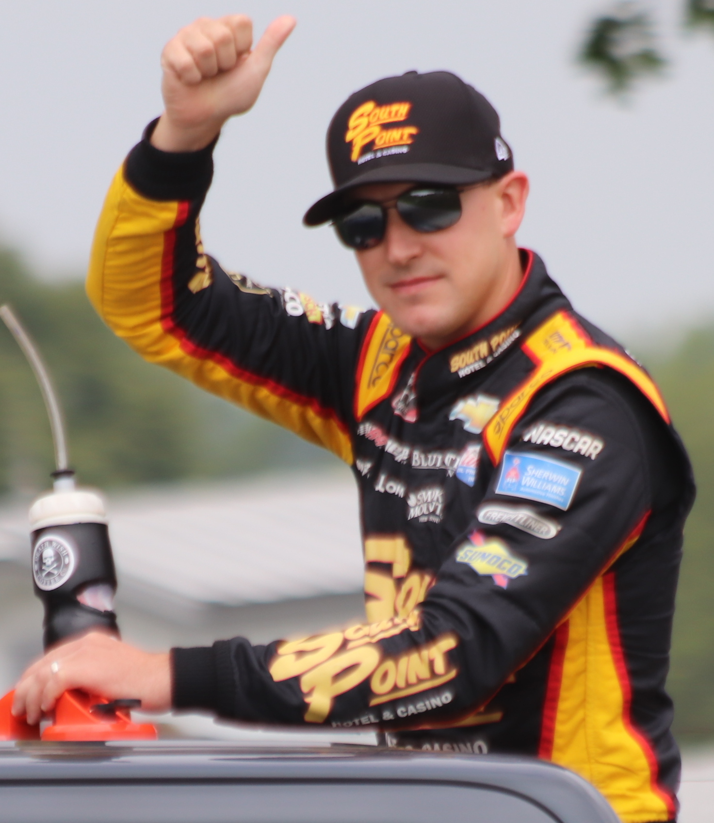 NASCAR Xfinity Series driver Daniel Hemric waves to fans at the 2018 Road America race.